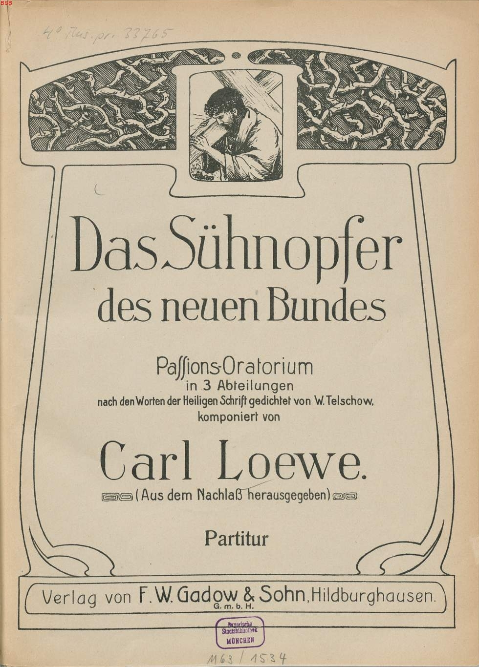 Title page of the posthumous first edition of Carl Loewe's oratorio Das Sühnopfer des neuen Bundes ("The expiatory sacrifice of the New Covenant")